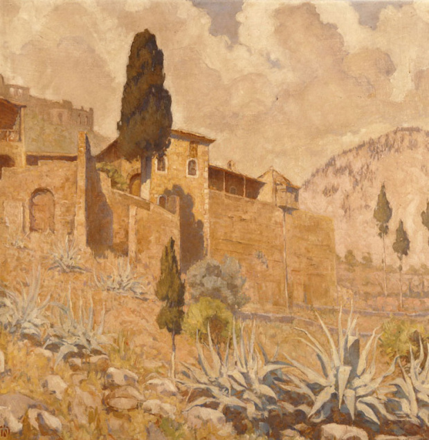 Greek painter Pavlos Kalligas (1883-1942): Mystras